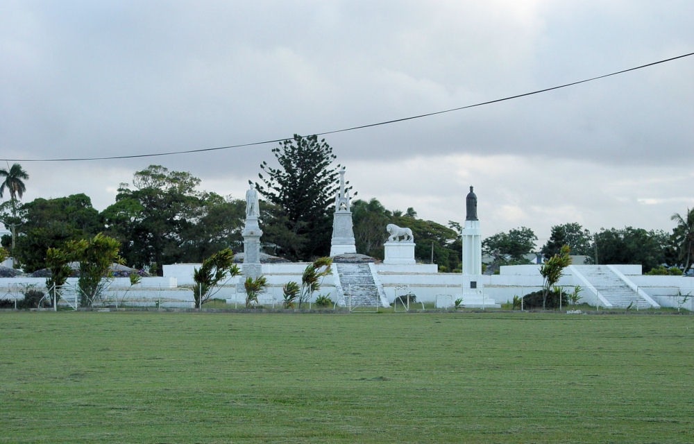 Royal family tomb, Nuku'alofa, Tonga